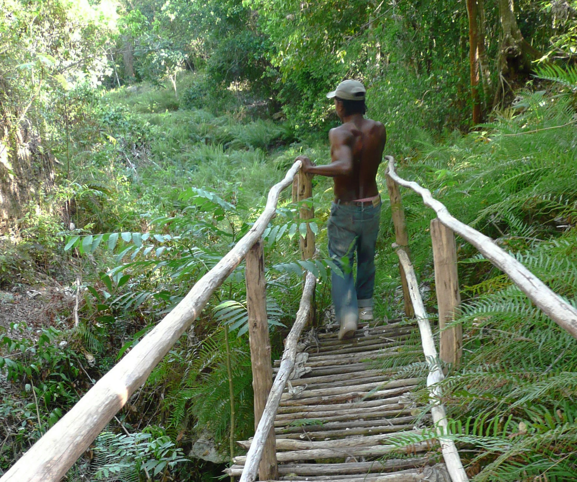 Cuba, protected area 'Loma de Cunagua', near Moron, Ciego de Avila province. On a trail called 'Sendero de Tocororo'